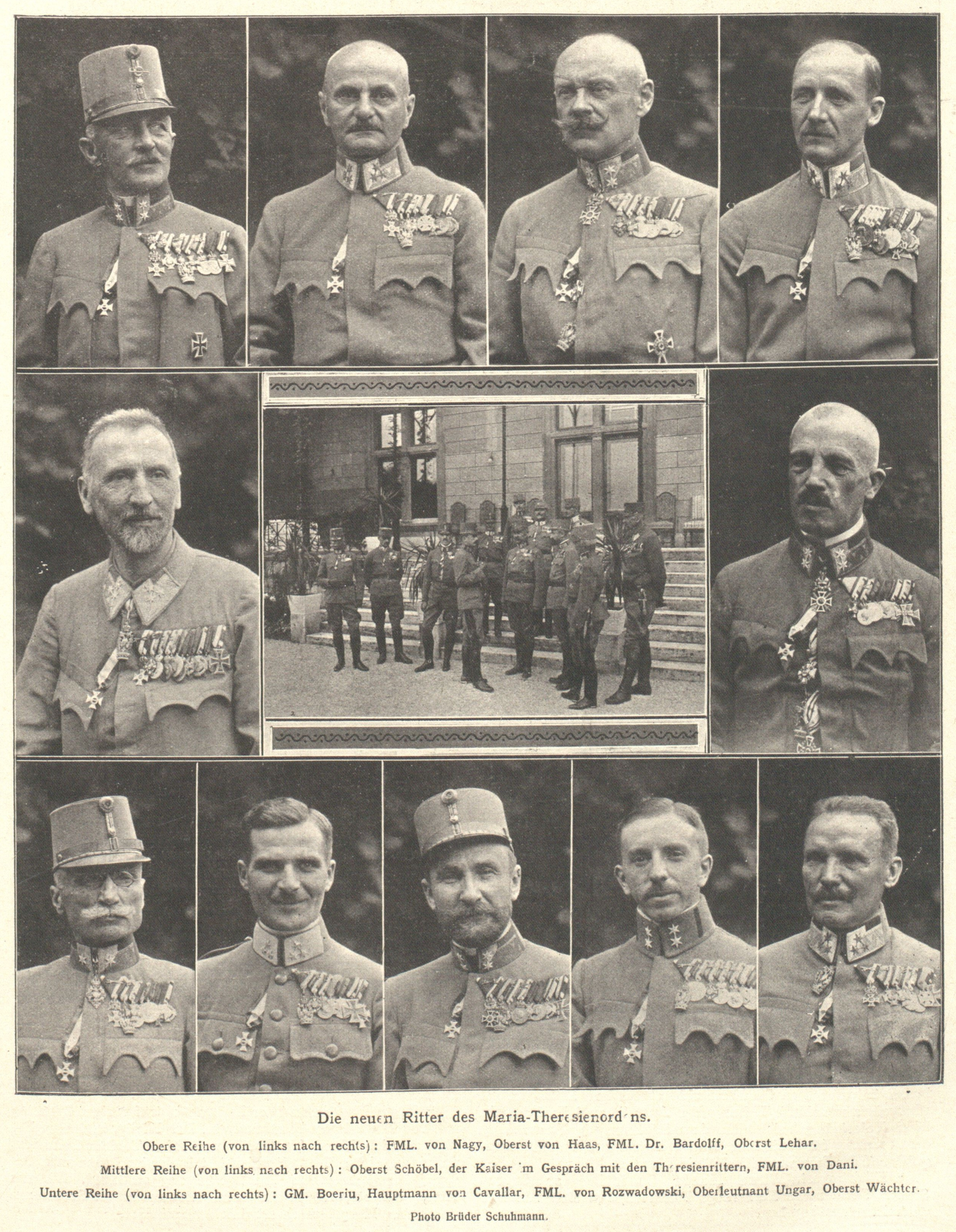 Military Order of Maria Theresa; investiture in 1918